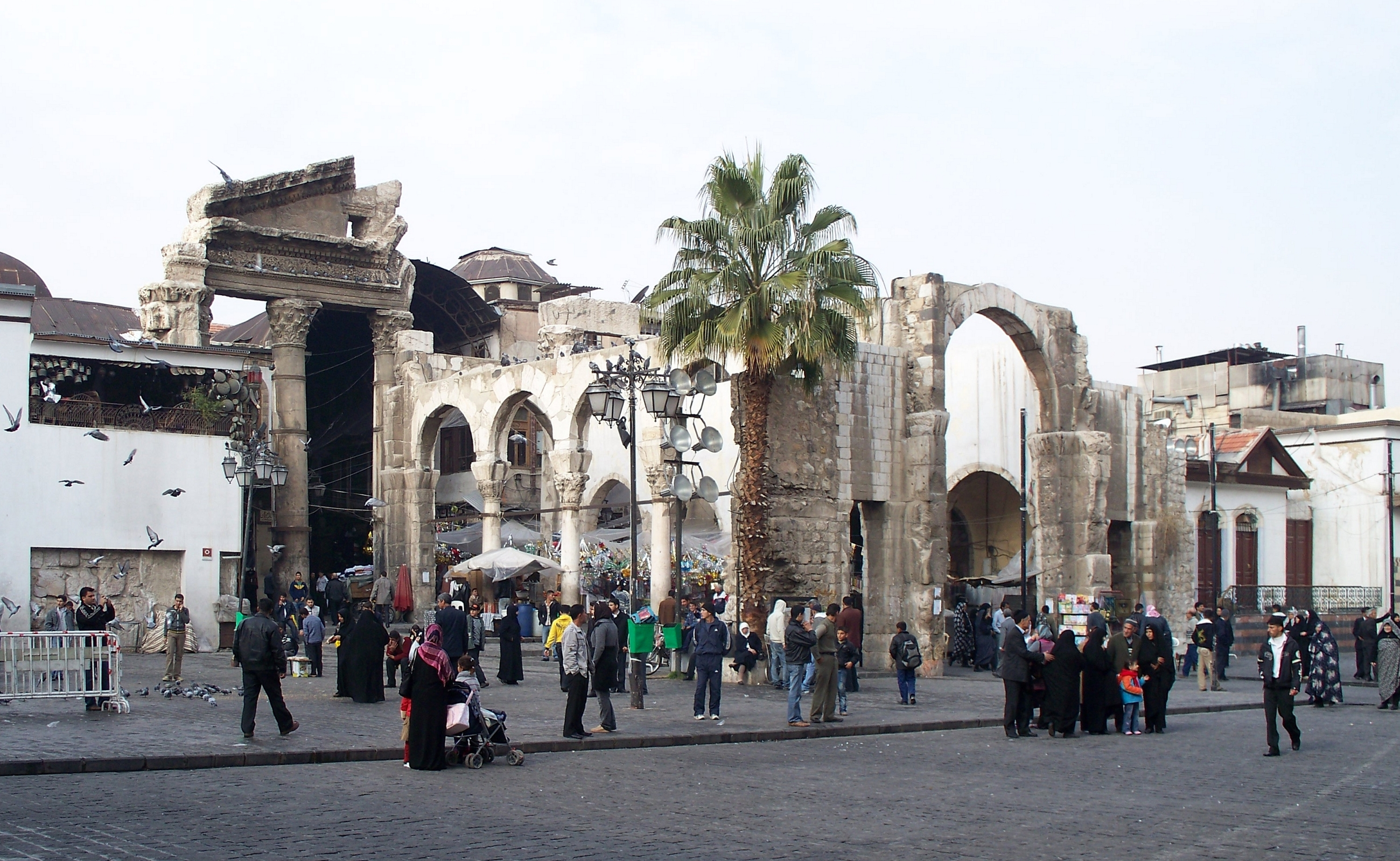 The Al-Hamidiyah Souq in Damascus, Syria.